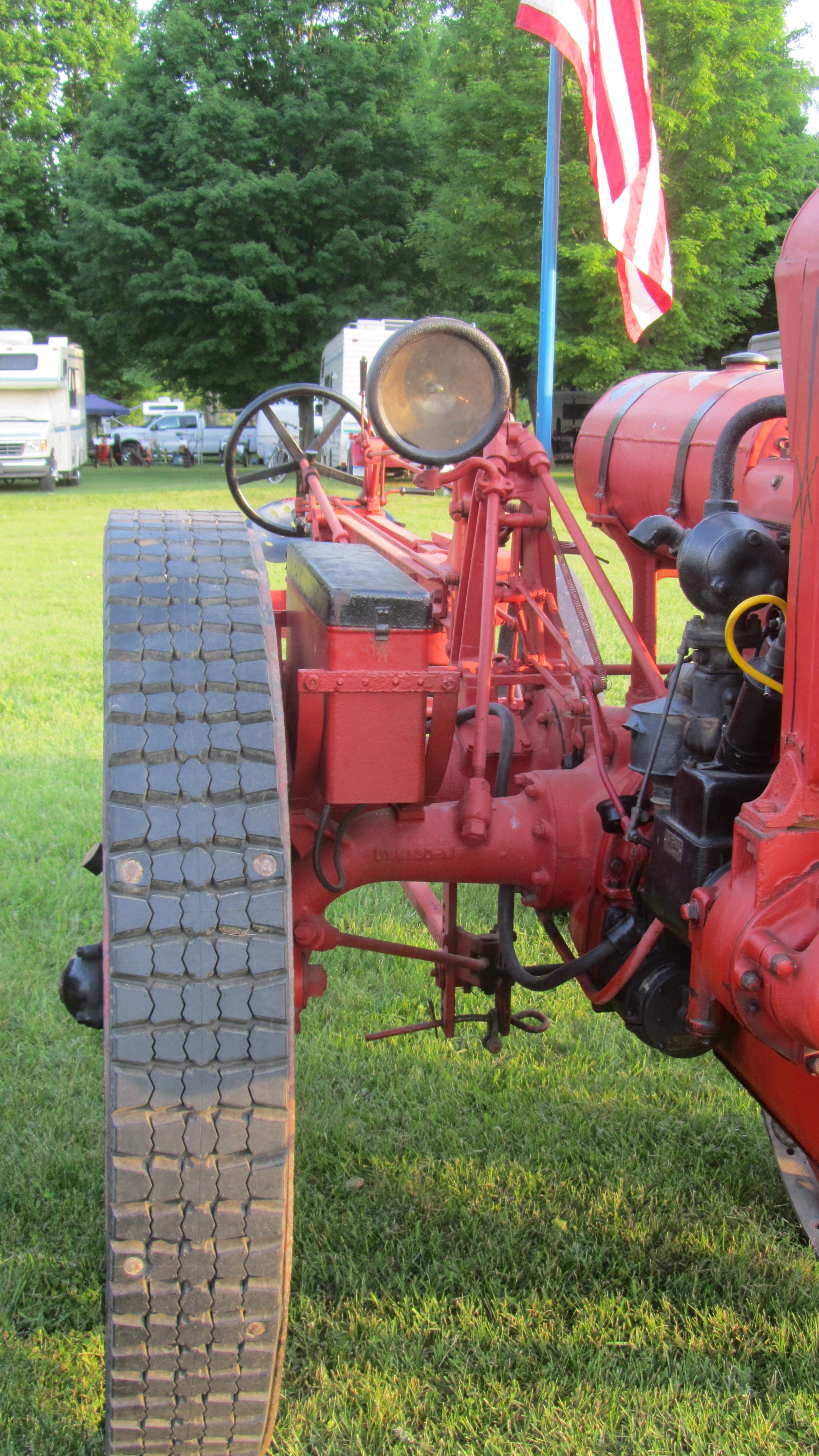 Moline Universal tractor (model D?), built by the Moline Plow Co., Moline, Illinois, USA, ca. 1918; Antique Gas Engine and Tractor Show 2010, Hudson Mills Metropark, USA.